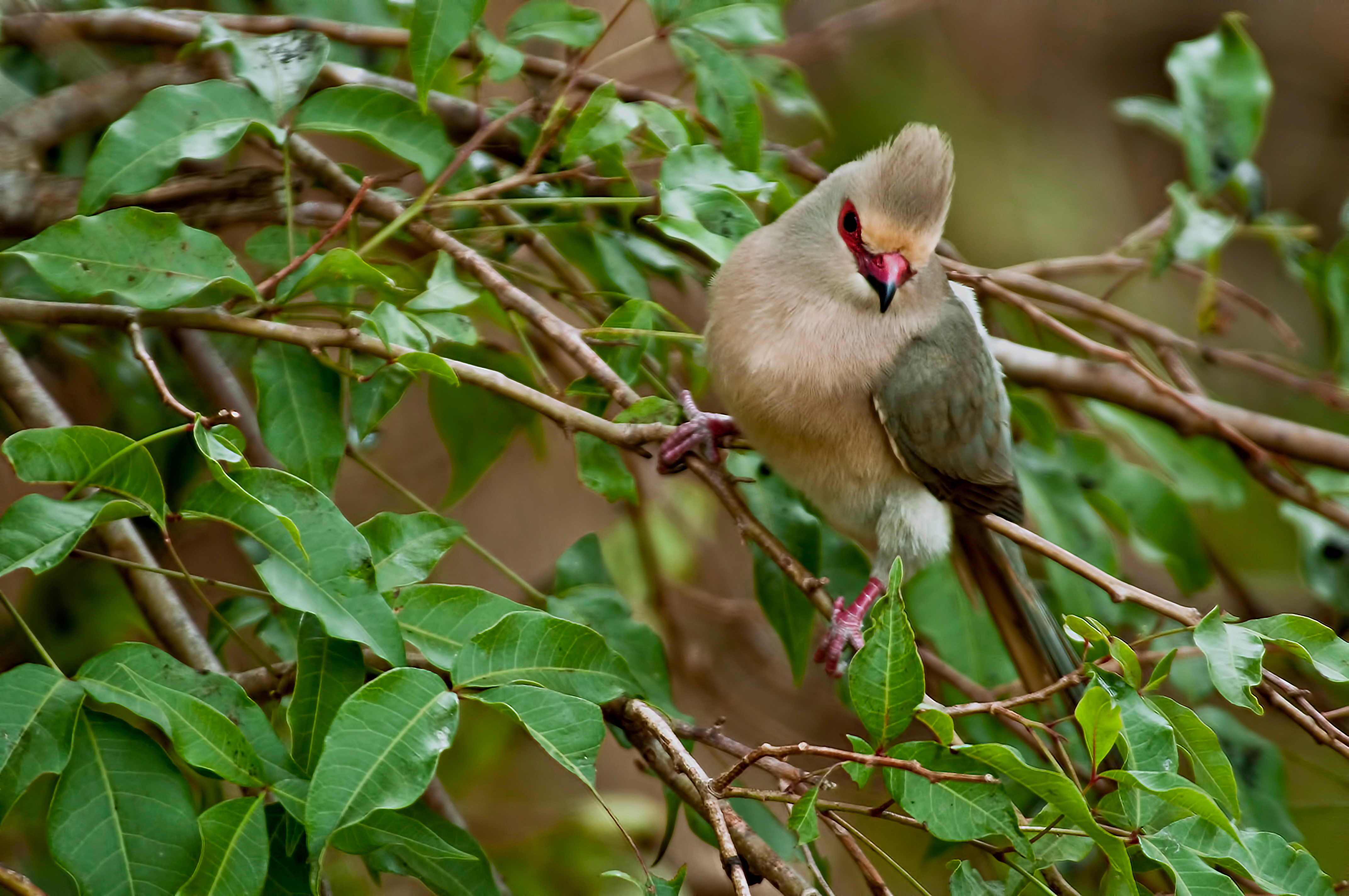 Red faced mousebird